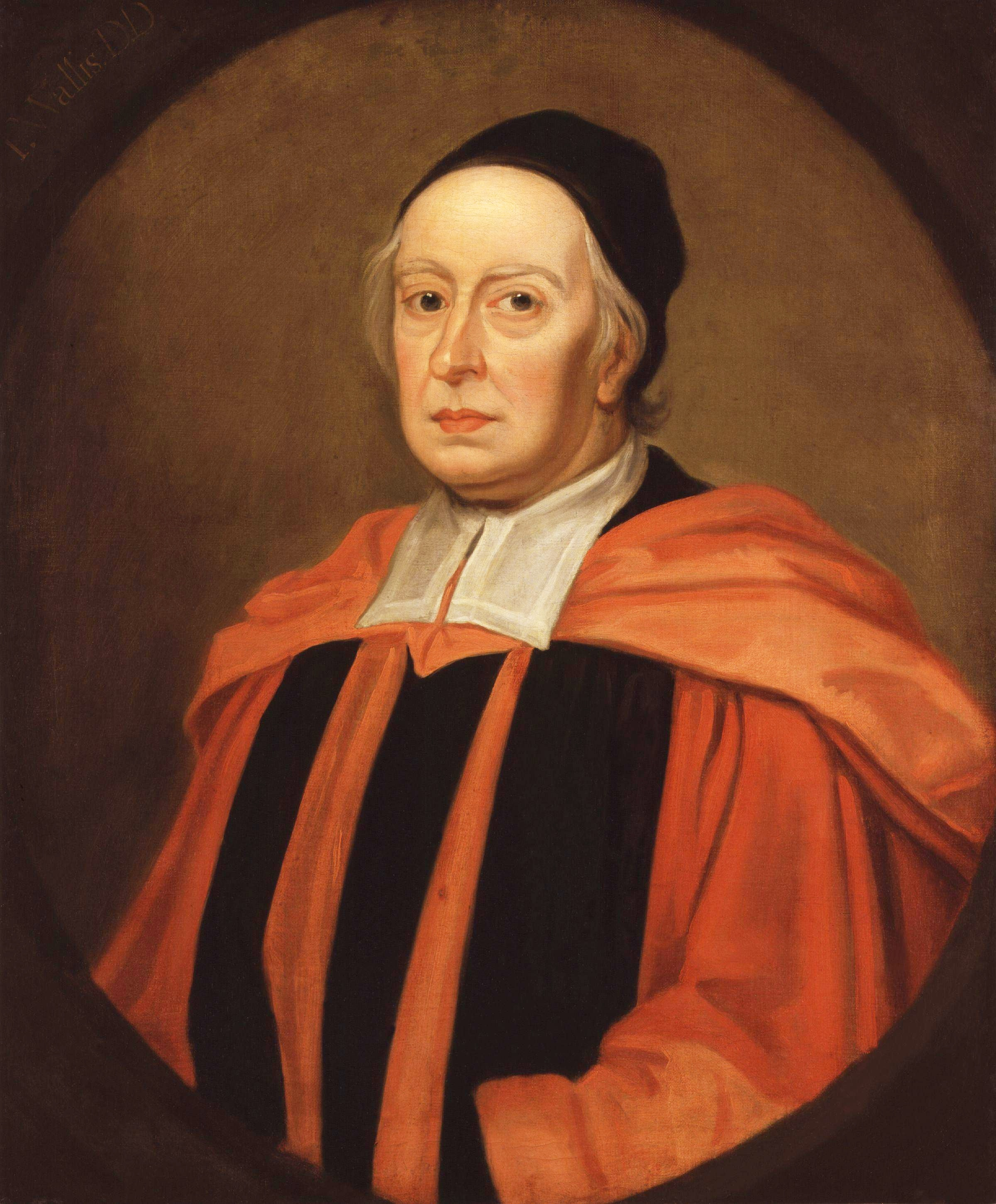 John Wallis, by Sir Godfrey Kneller, Bt (died 1723). All images in this batch have been confirmed as author died before 1939 according to the official death date listed by the NPG.